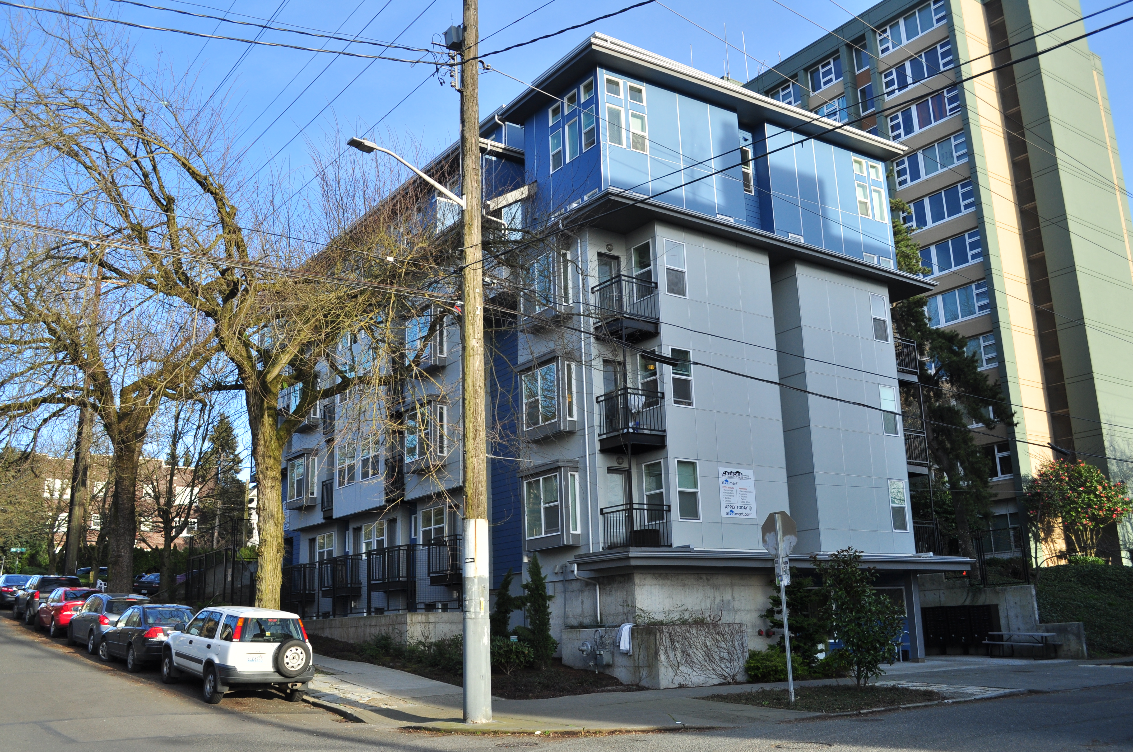 "Apodment" (microapartment) buildin at the southeast corner of 13th Ave E and E Mercer Street, Capitol Hill, Seattle, Washington.